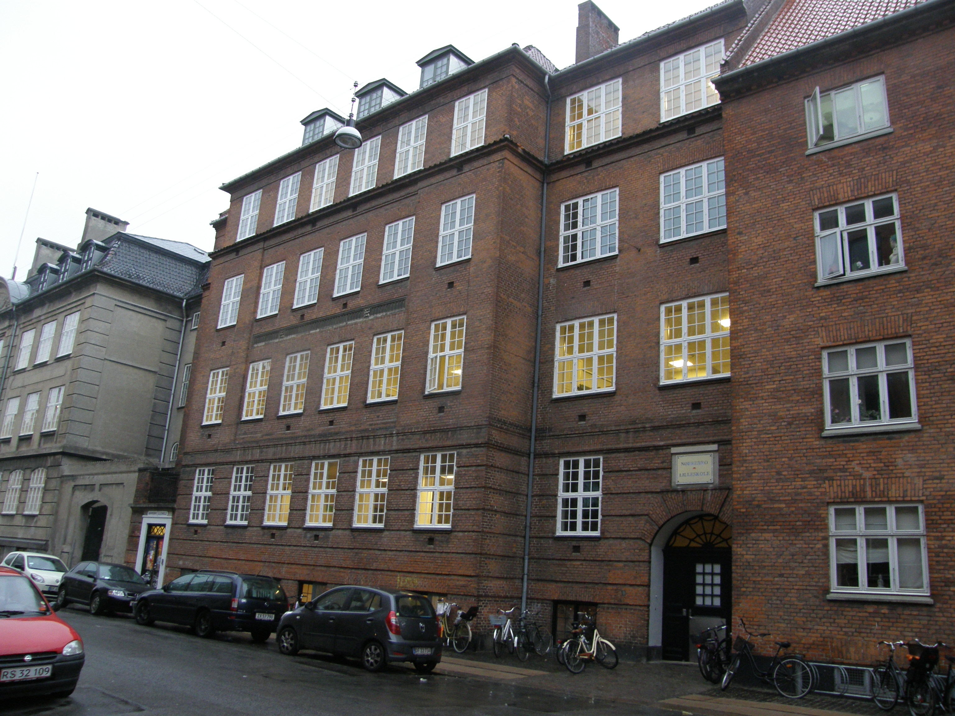 Nørrebro Lilleskole School, Nørrebro, Copenhagen, DenmarkDansk: Nørrebro Lilleskole, Nørrebro, København, Danmark